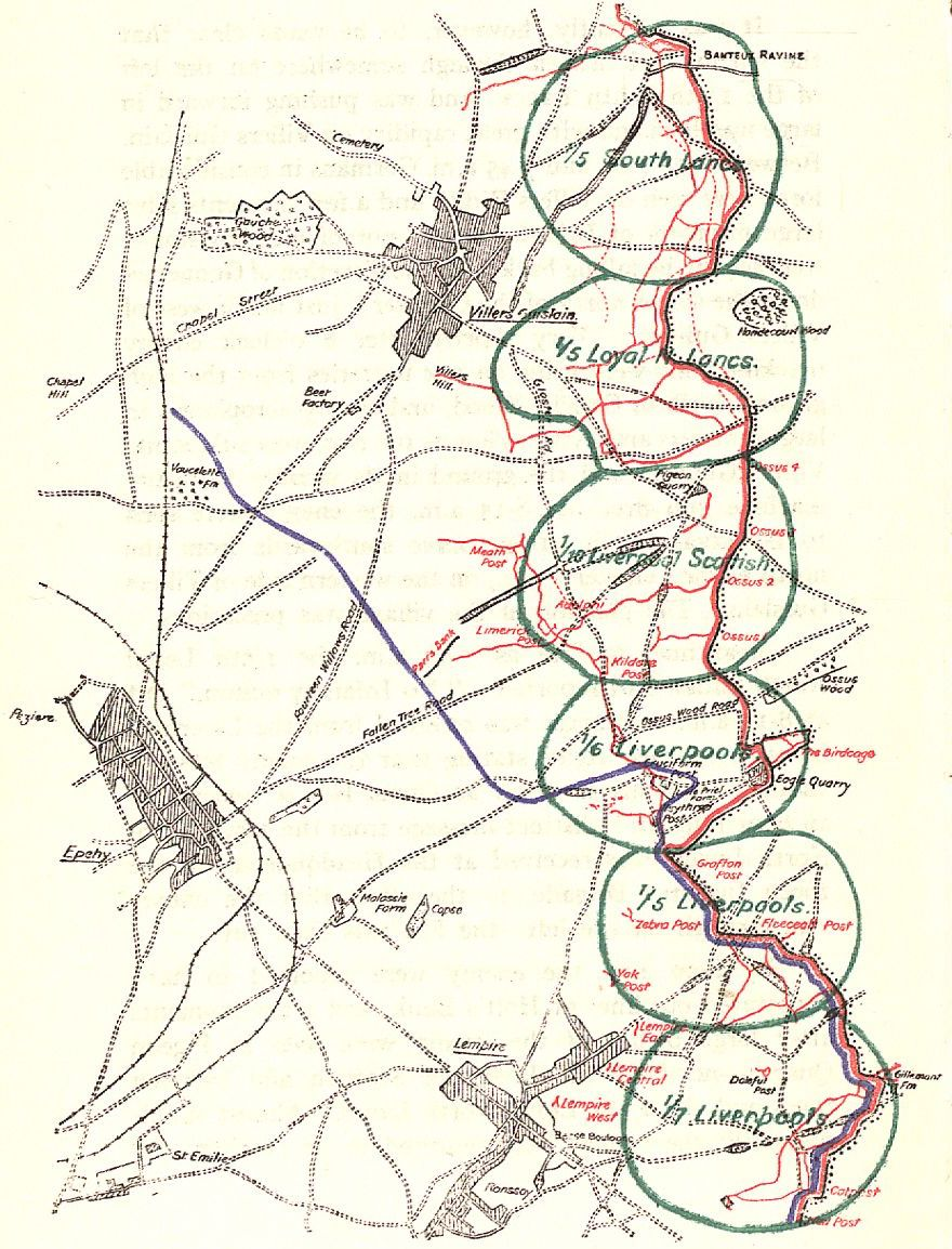 Positions of the 55th (West Lancashire) Division at Cambrai before and after German attack on 30 November 1917 - blue line running southeast from Vaucelette farm shows positions after the German attack while the red line shows positions before the attack